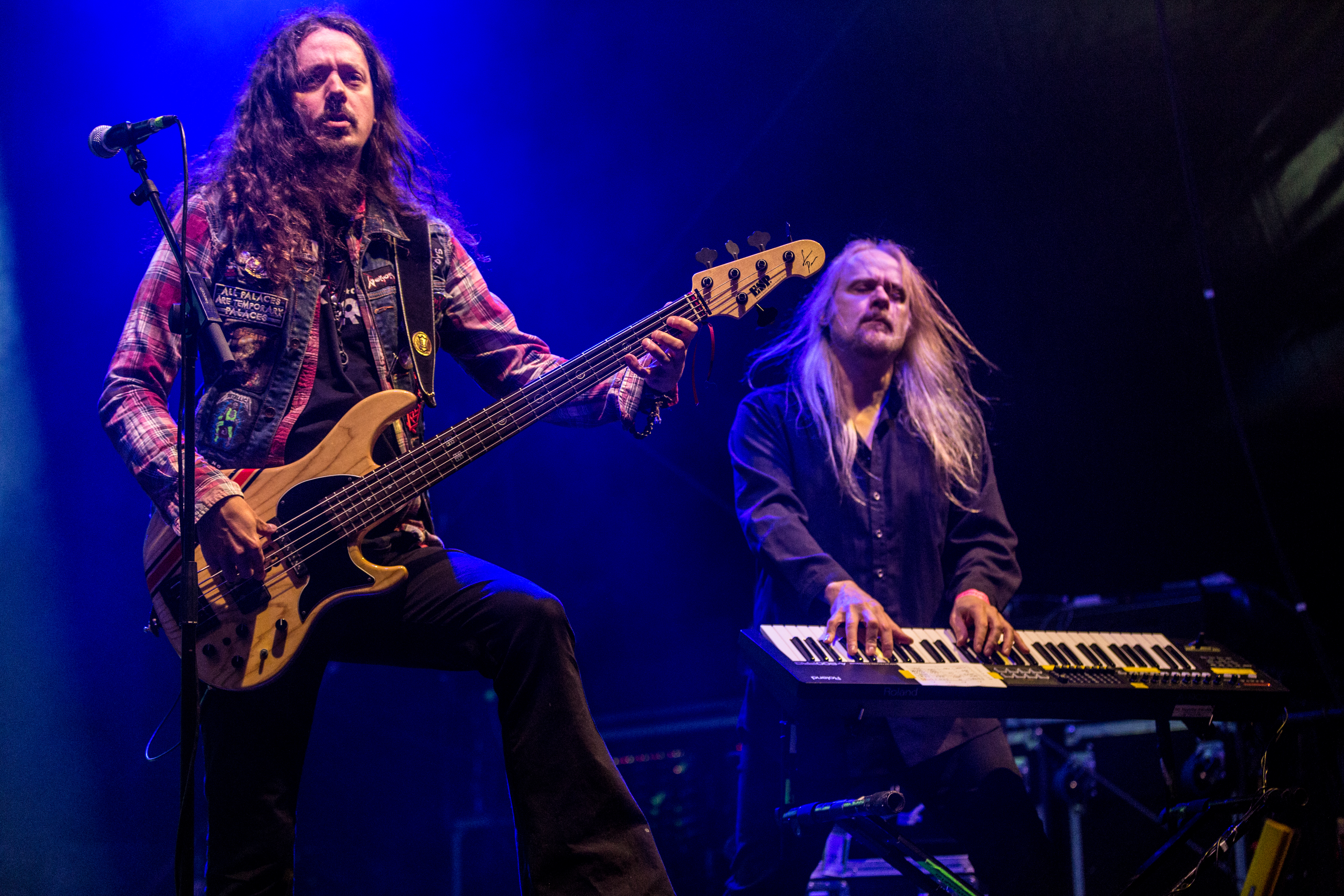 The Finnish power metal band Stratovarius at the Metal Frenzy 2017 in Gardelegen/Germany.